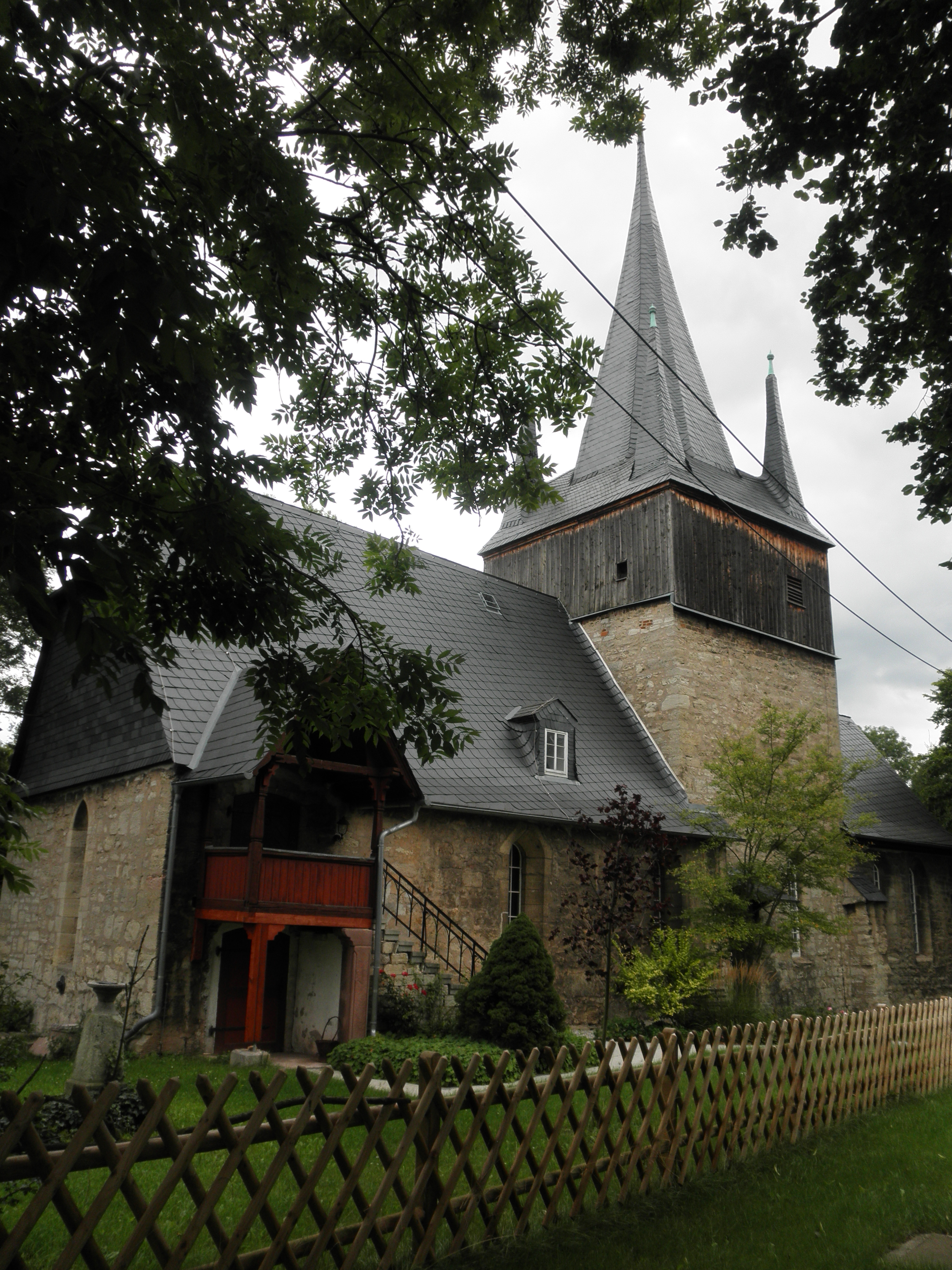 Church in Jecha (Sondershausen) in Thuringia